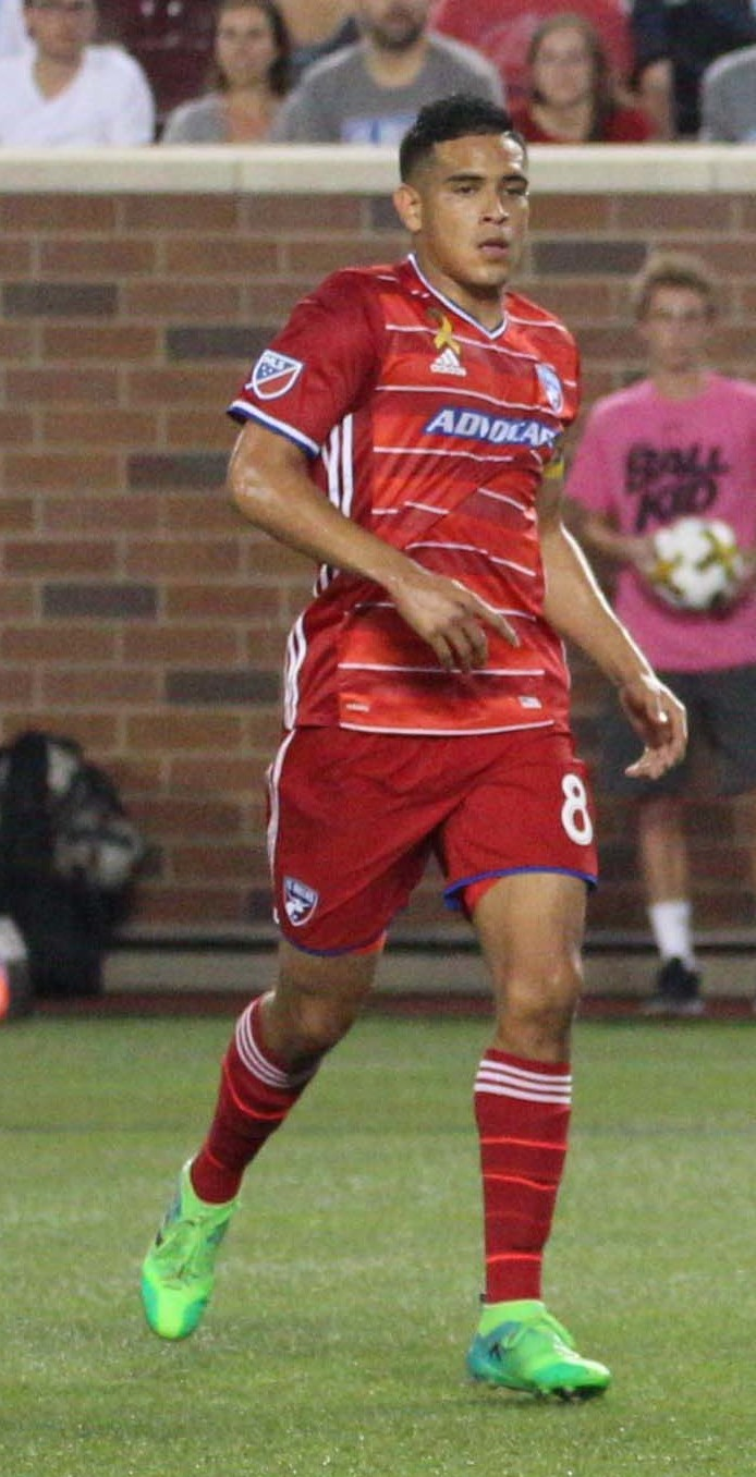 MNUFC - Minnesota United - MLS - FC Dallas